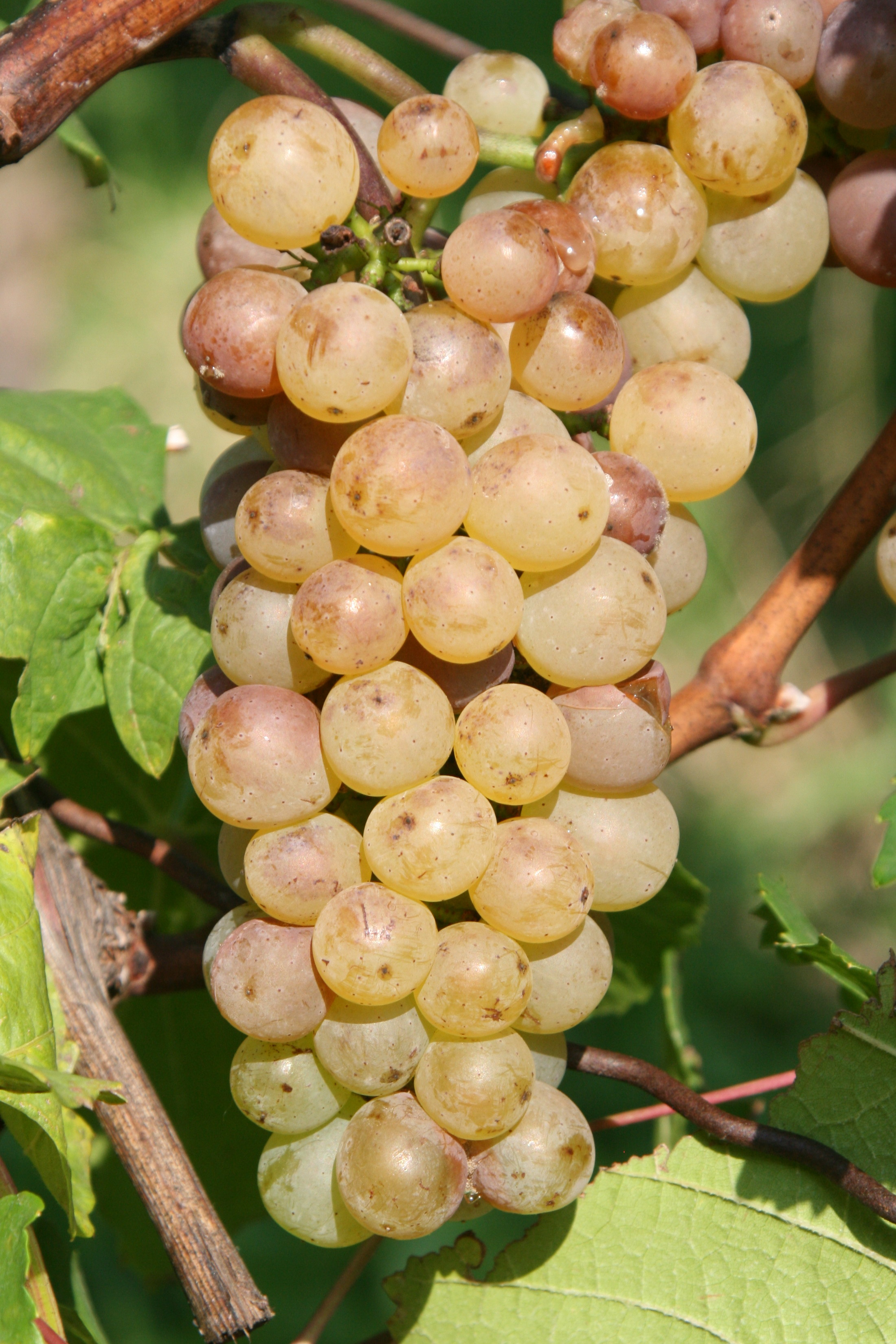 Grapes and leaves of the grape variety Auxerrois, photographed at the viticulture trail on the Schemelsberg hill in Weinsberg